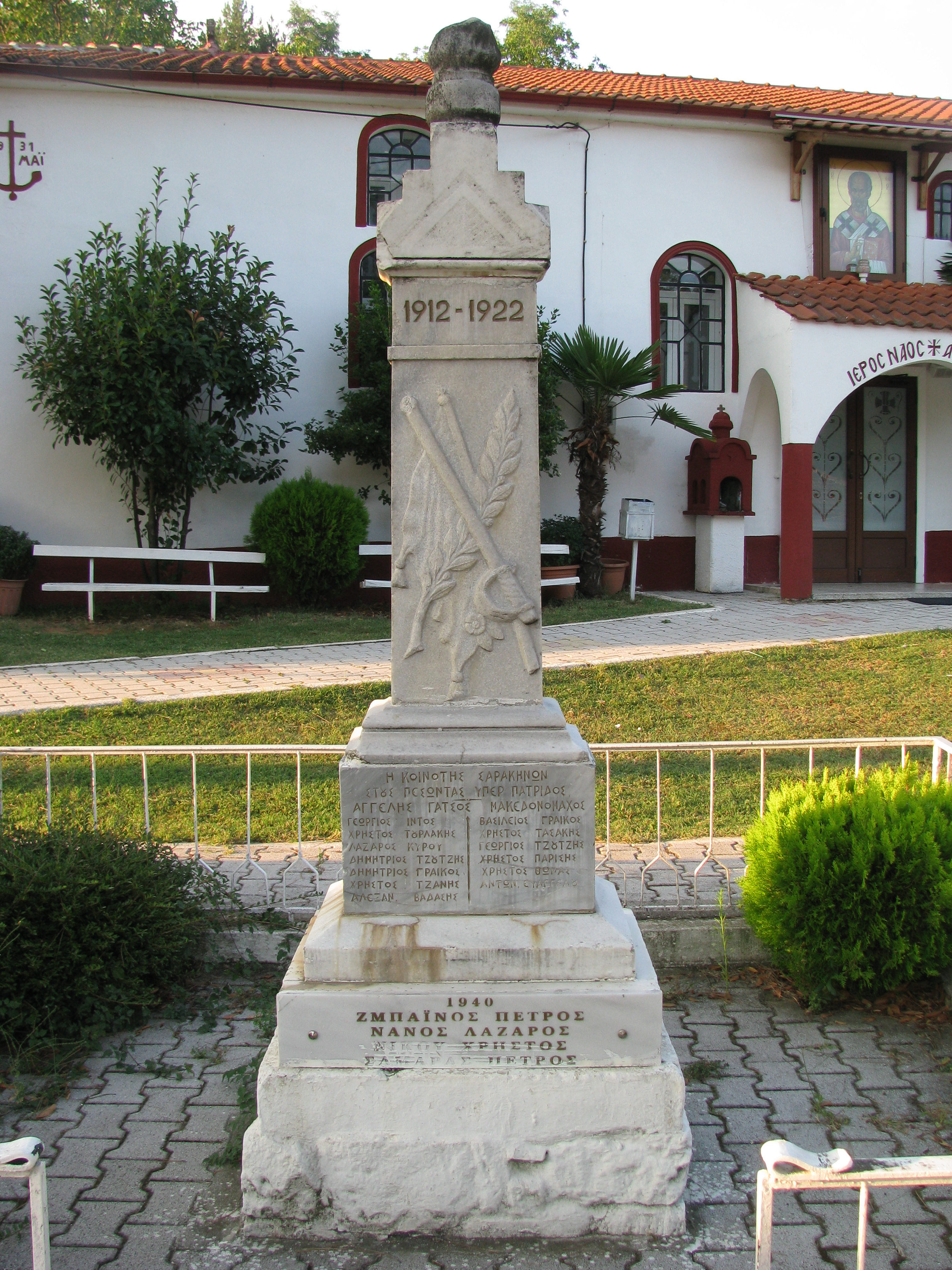 Sarakinovo monument